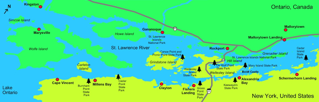 map of the Thousand Islands region